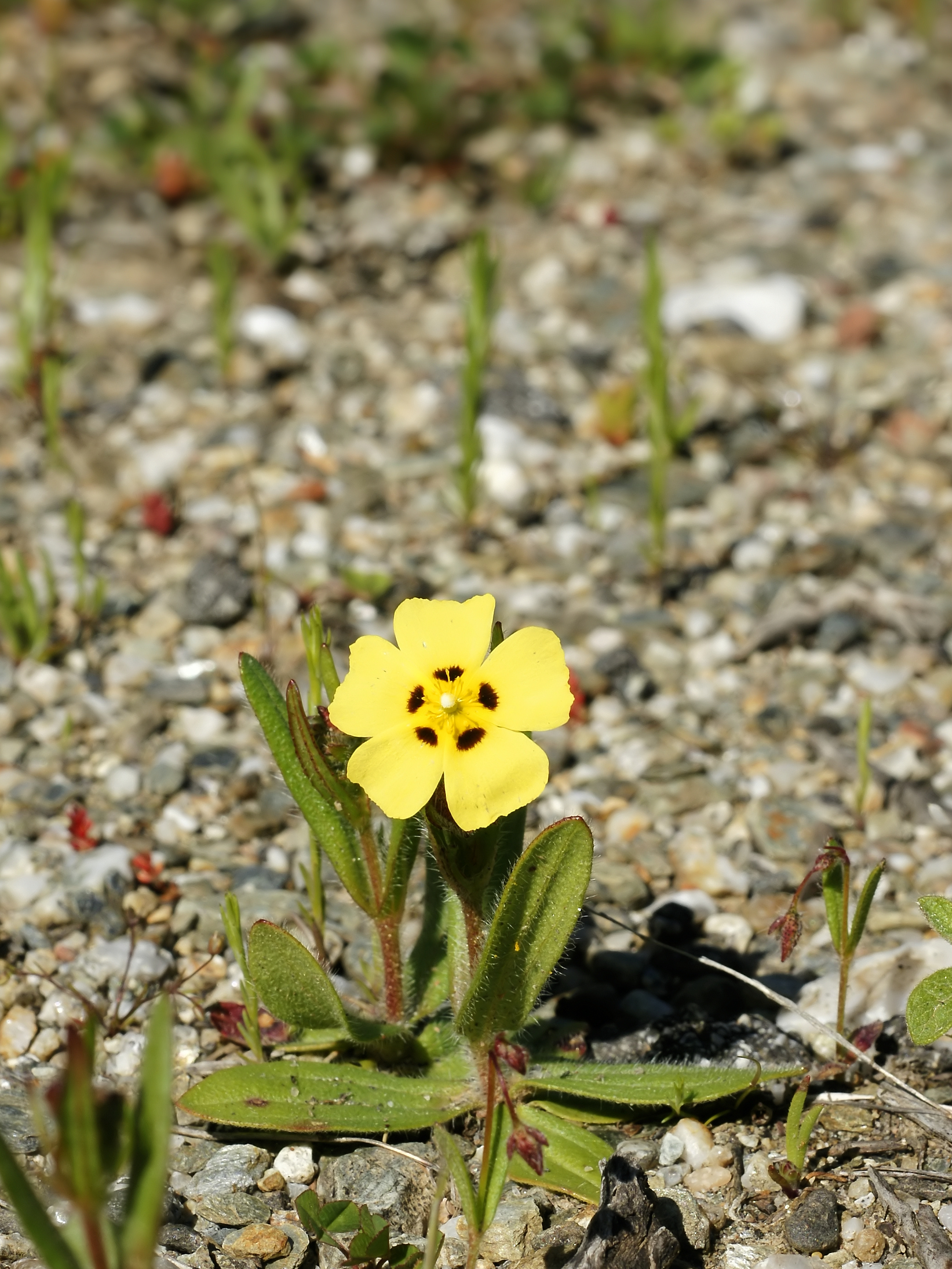 Spotted rockrose, Sardinia, Italy